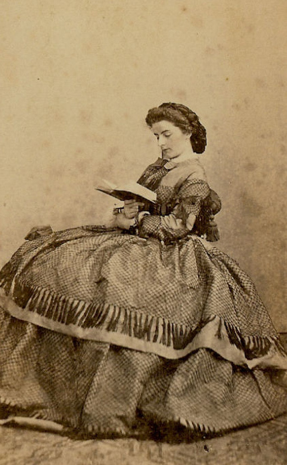 "Rome - Reading woman".